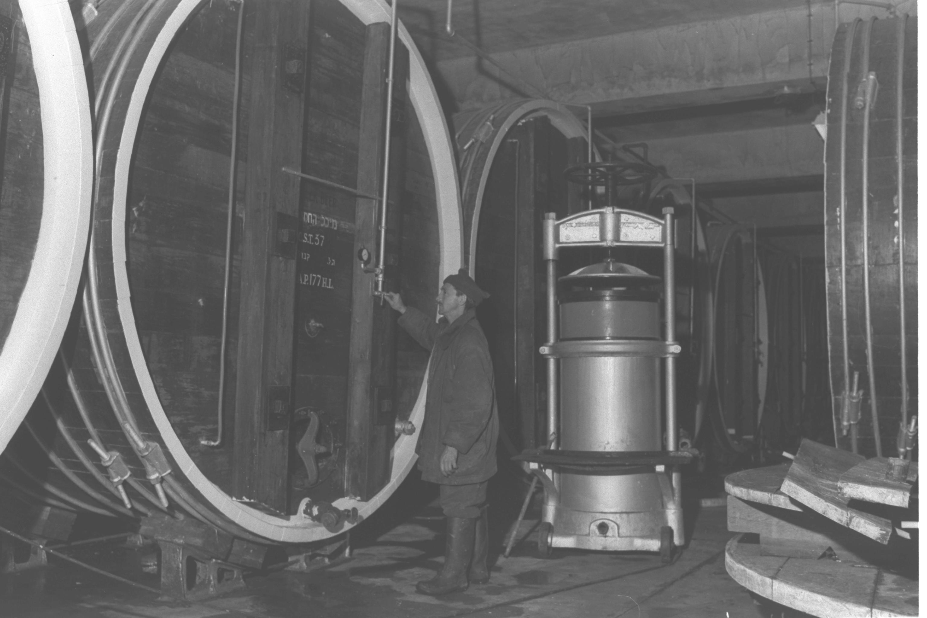 VIEW OF THE CELLAR AT THE "ABIR" BREWERY IN NETANYA.